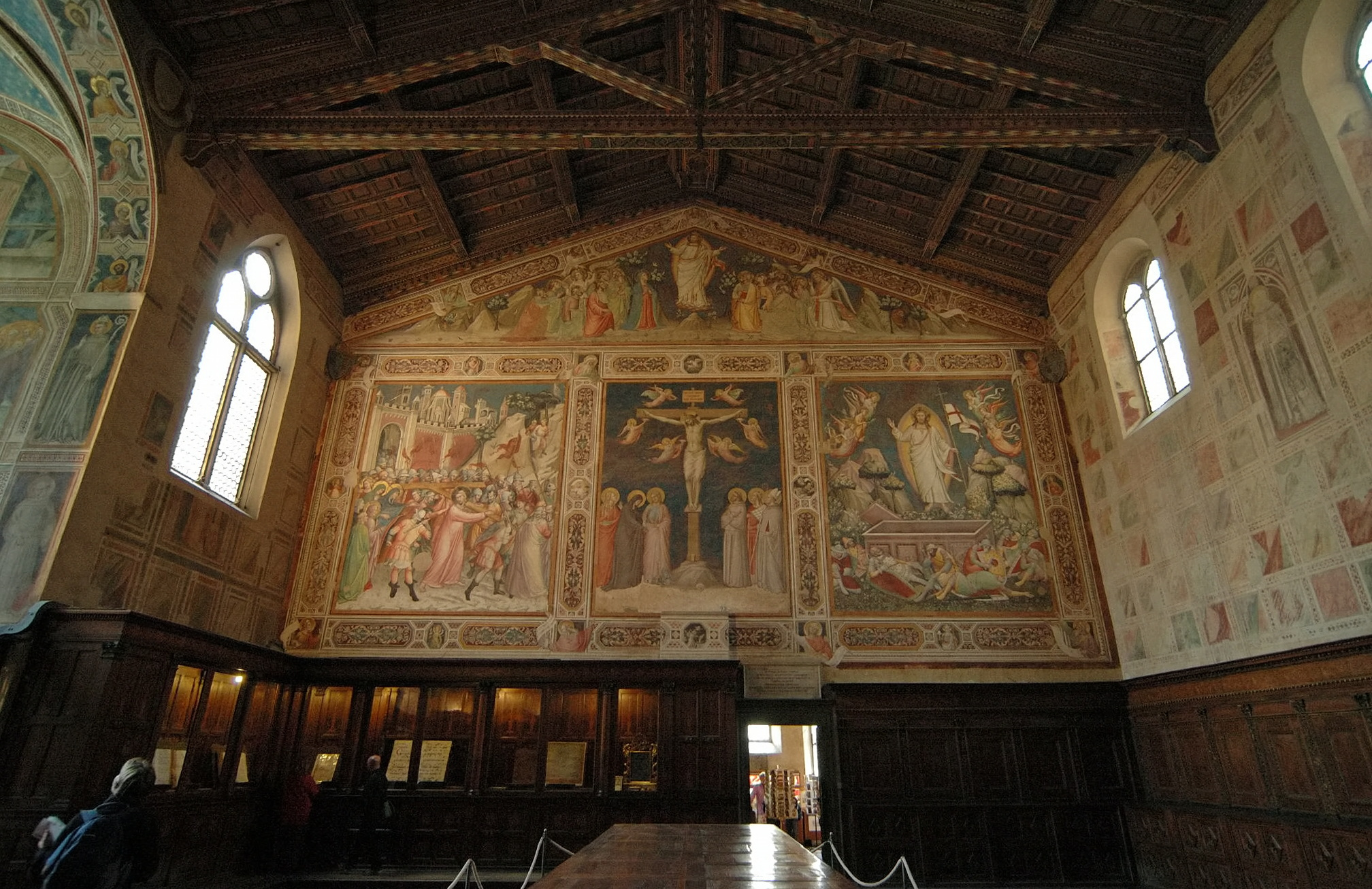 see above